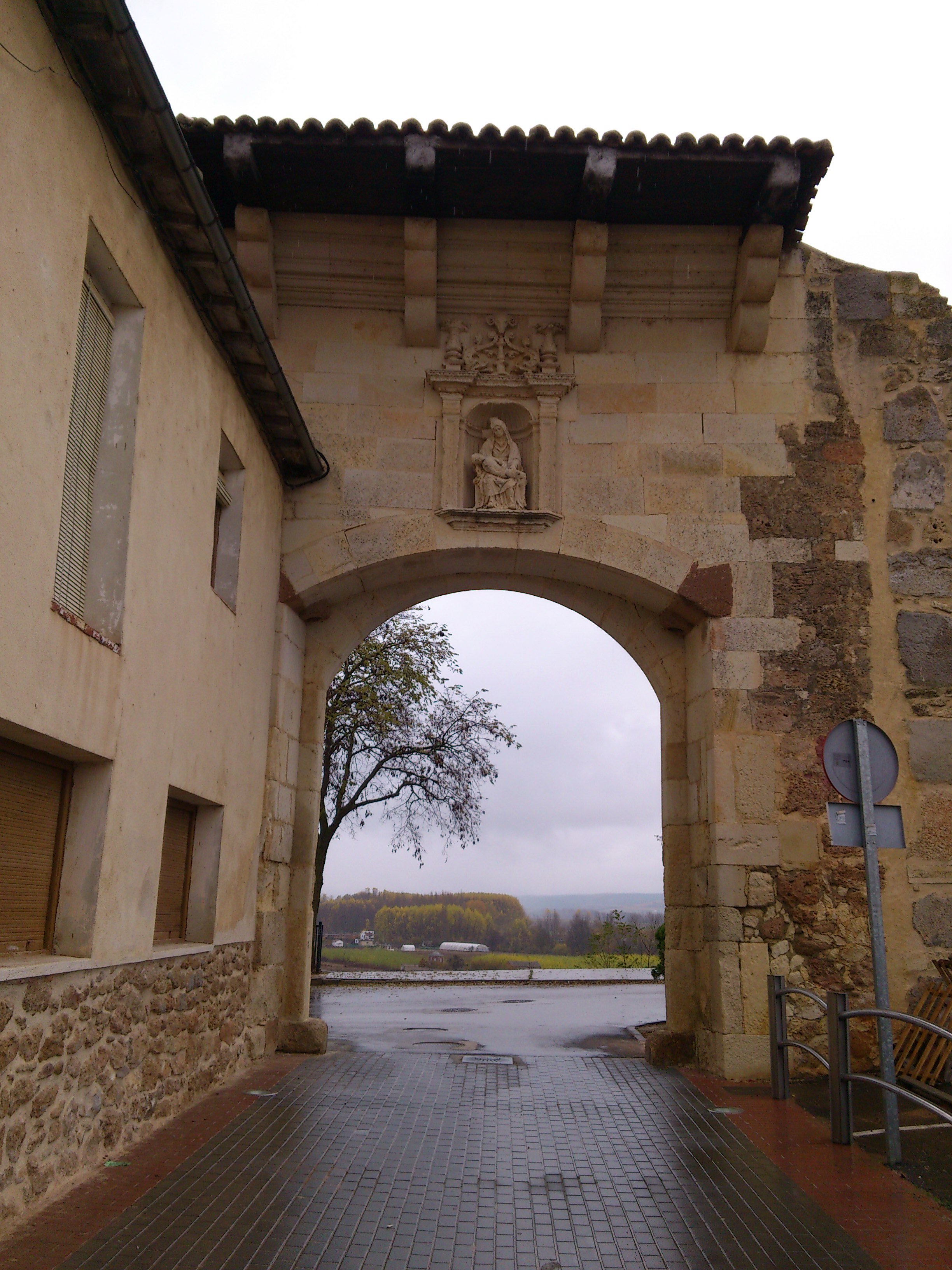 New Gate of the wall in Herrera de Pisuerga (Palencia, Castile and León).